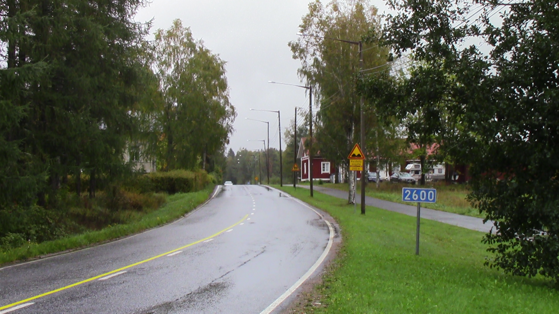 Finnish connecting road 2600 as seen from the crossing of Vanhatie road towards Lavia in Pomarkku, Finland. The road runs from Haunia to Siikainen.